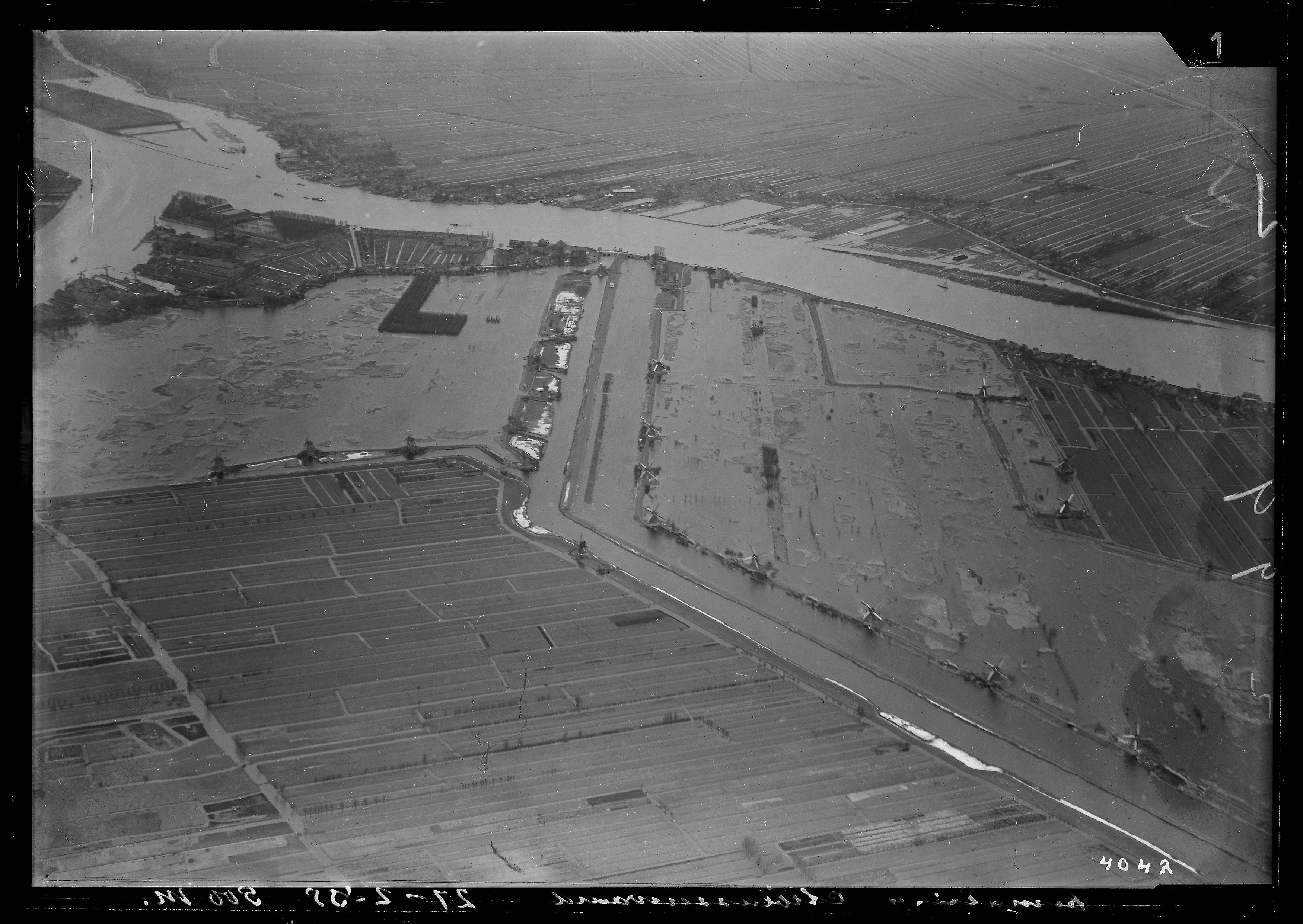 Aerial military photograph of Alblasserwaard featuring the windmills of Kinderdijk, The Netherlands, 1920 - 1940